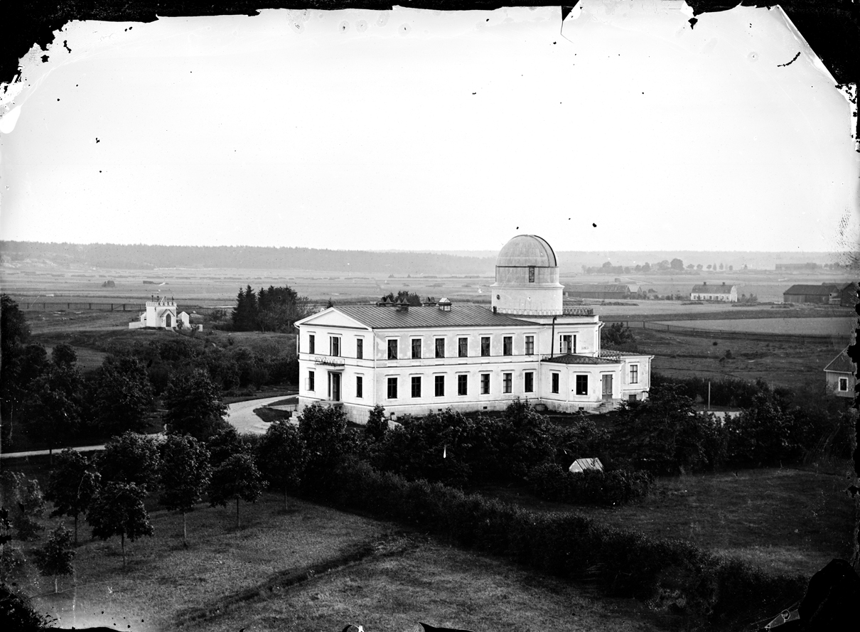 Observatoriet från norr, Luthagen, Uppsala före 1890. The Astronomical Observatorium in Uppsala, Sweden before 1890. Upplandsmuseet: OA054 Flickr data on 2011-08-24: Tags: Uppsala, Uppland, Sweden License: CC BY 2.0 User: Upplandsmuseet Upplandsmuseet Länsmuseum för Uppsala län